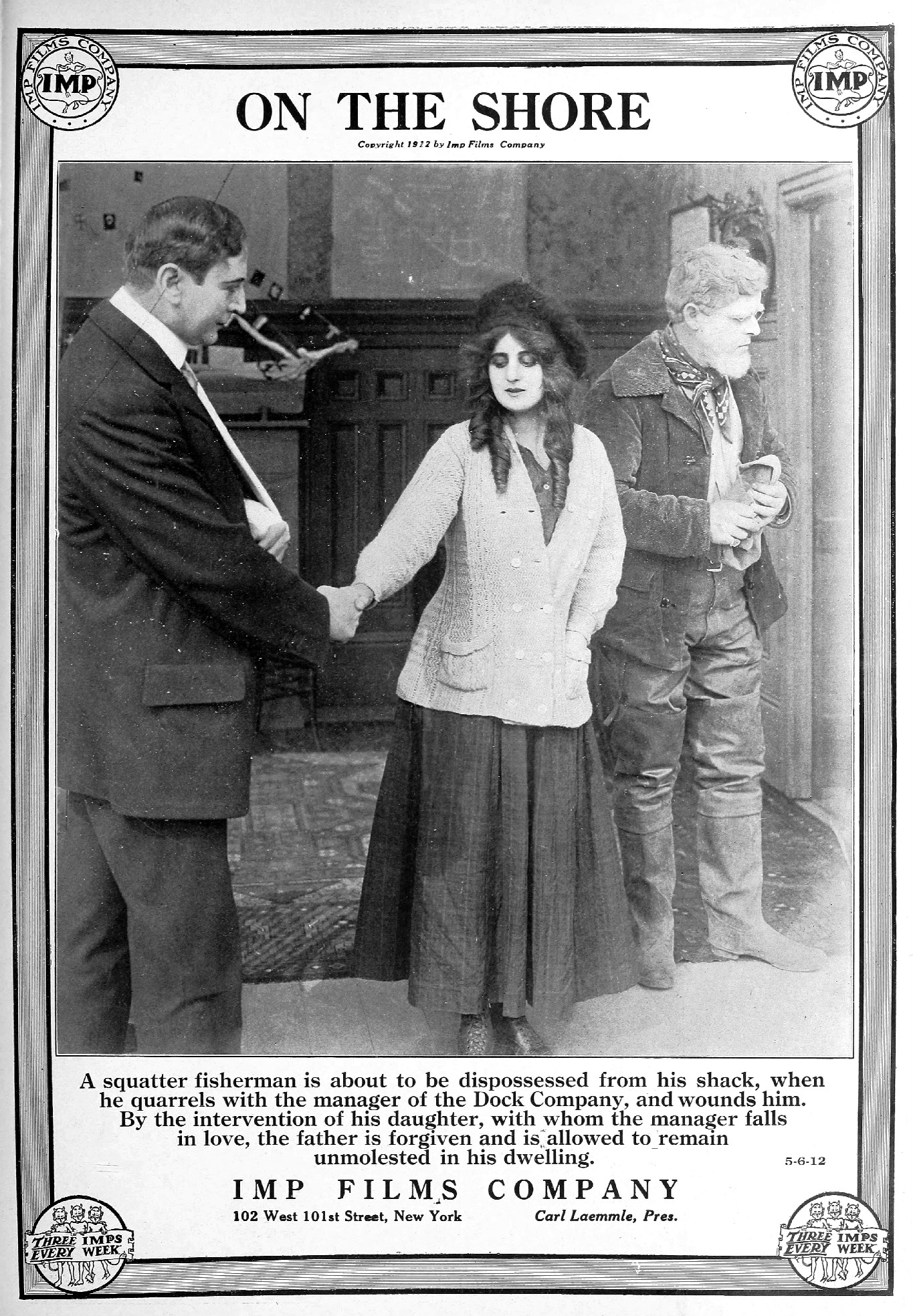 Ad for Imp Films' On the Shore-1912.